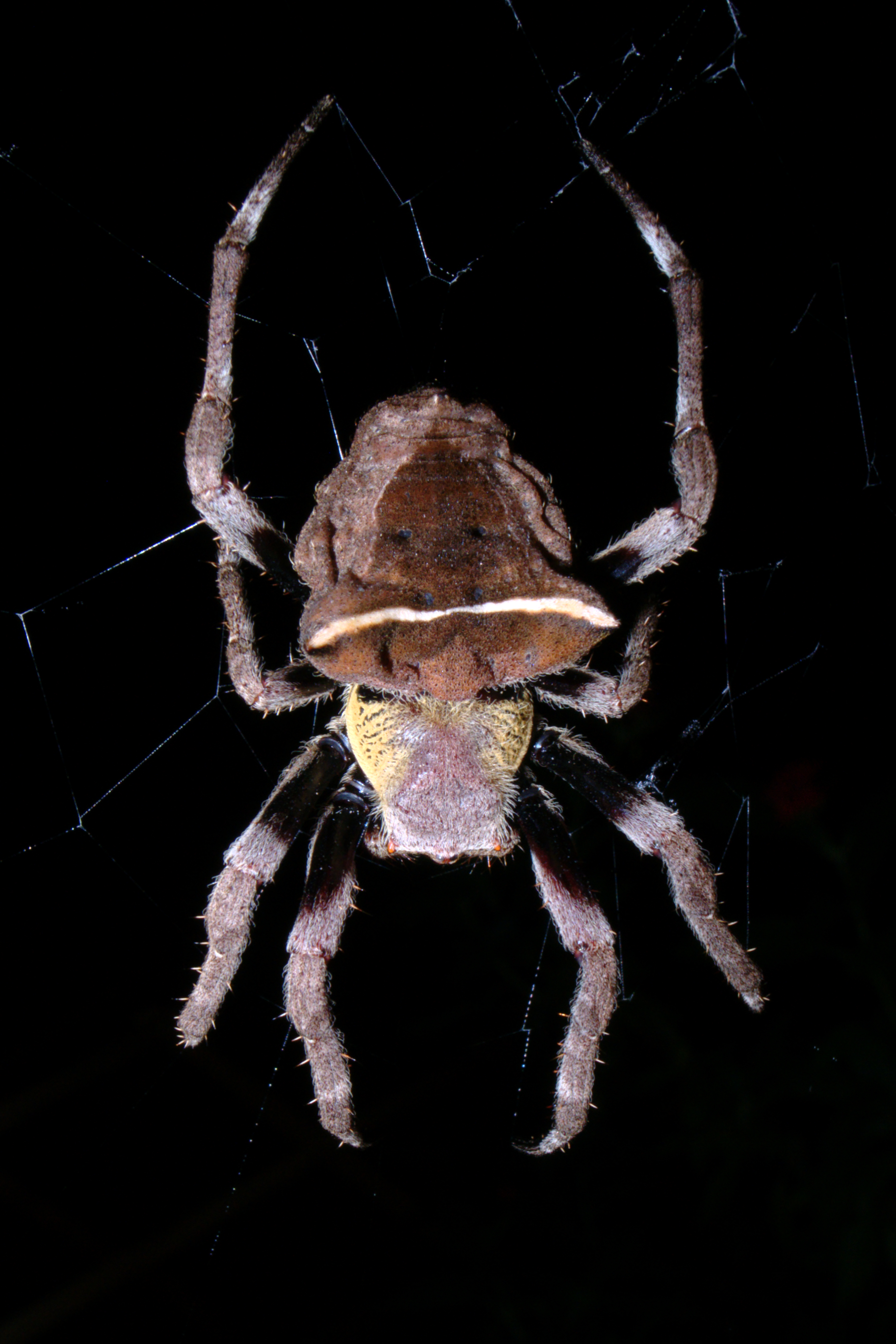 Adult female Parawixia dehaani